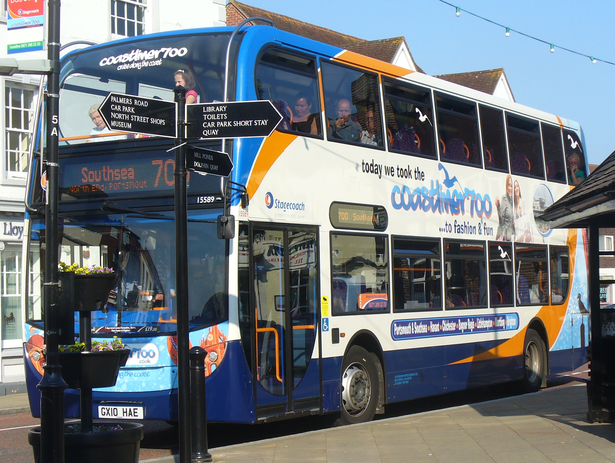 Stagecoach in the South Downs bus 15589 (reg. GX10 HAE), a 2010 Scania N230UD double-decker with Alexander Dennis Enviro400 body bodywork, pictured at The Square in Emsworth, West Sussex. It's branded for and operating route CoastLiner 700, Portsmouth & Southsea to Brighton, headed for Southsea.